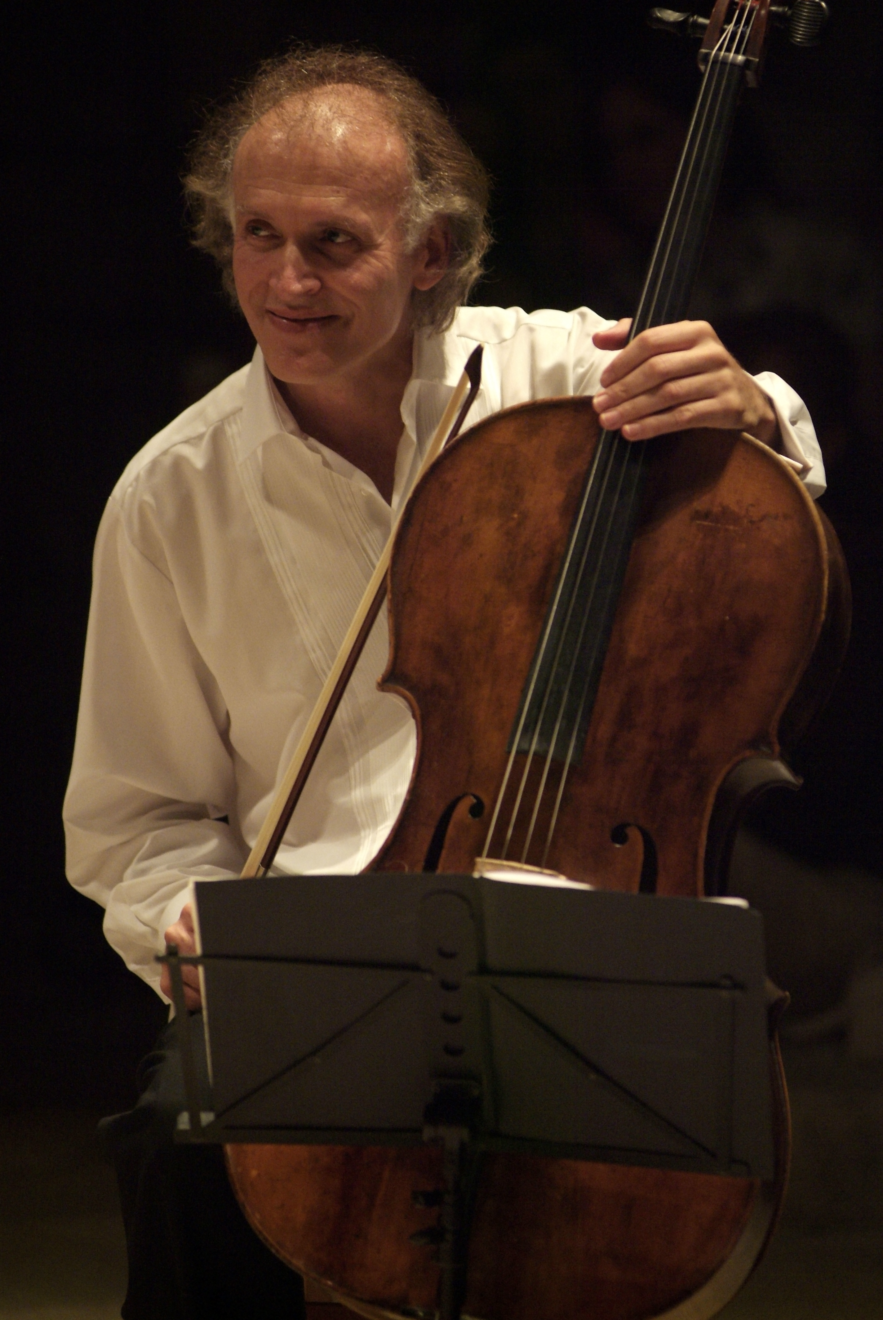 A photo of Valter Despalj